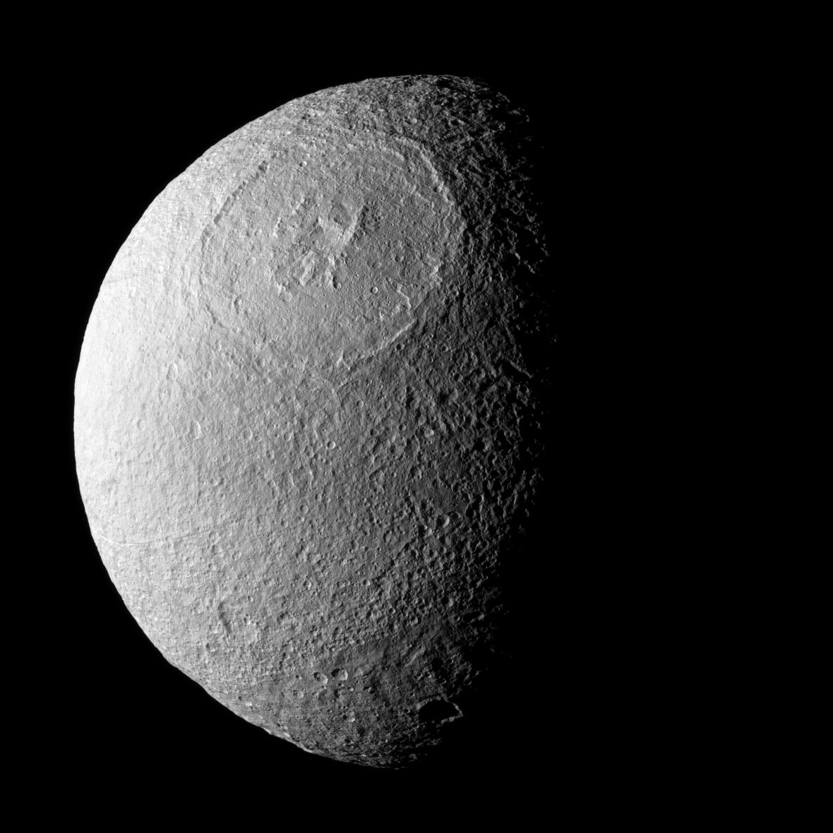 The crater Odysseus on Tethys imaged by the narrow-angle camera on the Cassini spacecraft.